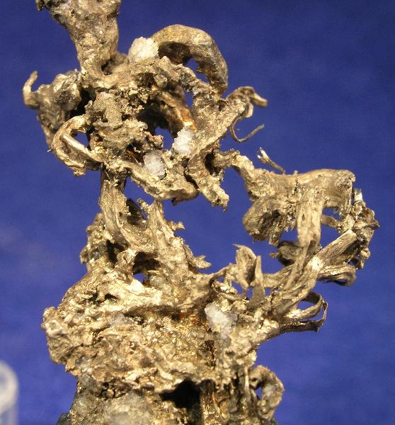 Silver Locality: Kongsberg, Buskerud, Norway (Locality at ) Size: miniature, 3.7 x 1.7 x .6 cm Silver Excellent Silver miniature from arguably the world's greatest Silver mine, Kongsberg. The Silver has excellent patina, lovely, intricately woven wires, and a trace of Calcite. Quite aesthetic, and good Kongsberg pieces are very hard to find. Better, even, in person.